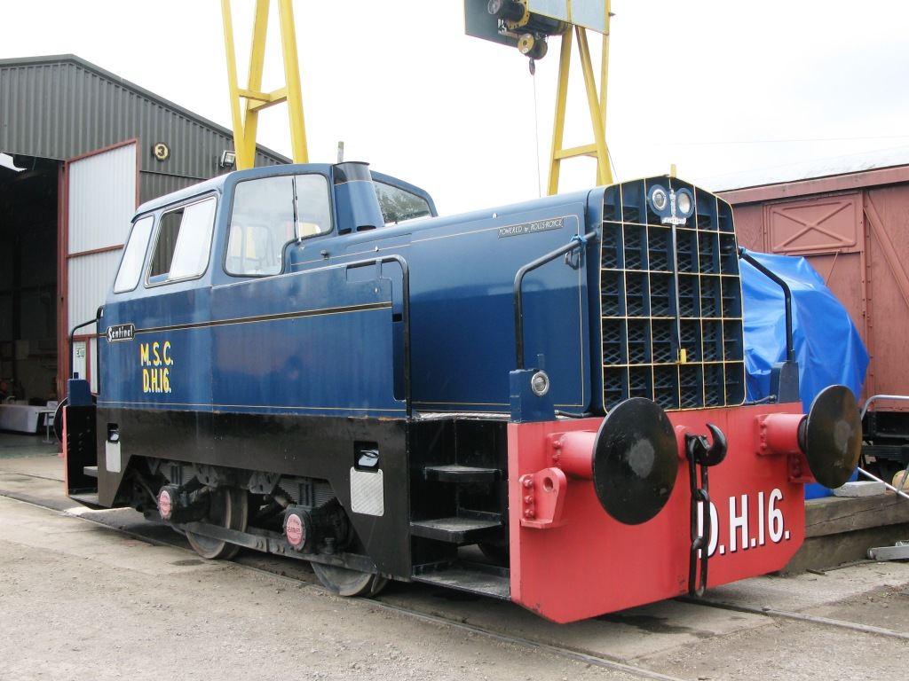 Former Manchester Ship Canal DH16, a Sentinel shunter, at the Diesel and Electric preservation Group's depot at Williton, Somerset, England.